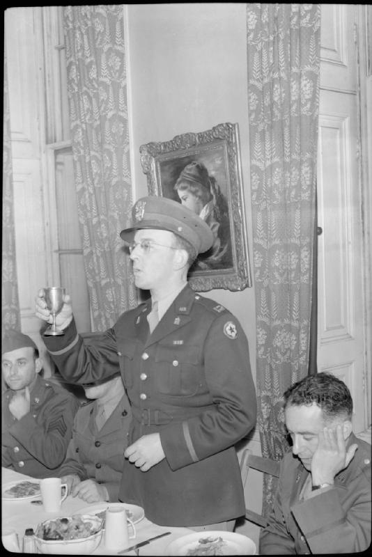 Allied Forces Celebrate Jewish New Year- Religious Celebrations at the Balfour Service Club, London, UK, 1943 Captain Judah Nadich (standing centre), a Rabbi with the American army, raises his glass as he offers the Kiddush prayer. To the left of Captain Nadich (originally from Baltimore, Maryland), hidden by his right arm, is Captain Gershon Levi, from Montreal, Canada, a Rabbi with the Canadian forces. He had previously offered the prayer over the bread. On the right of the photograph is Colonel Moses Strock from Boston, Massachusetts.